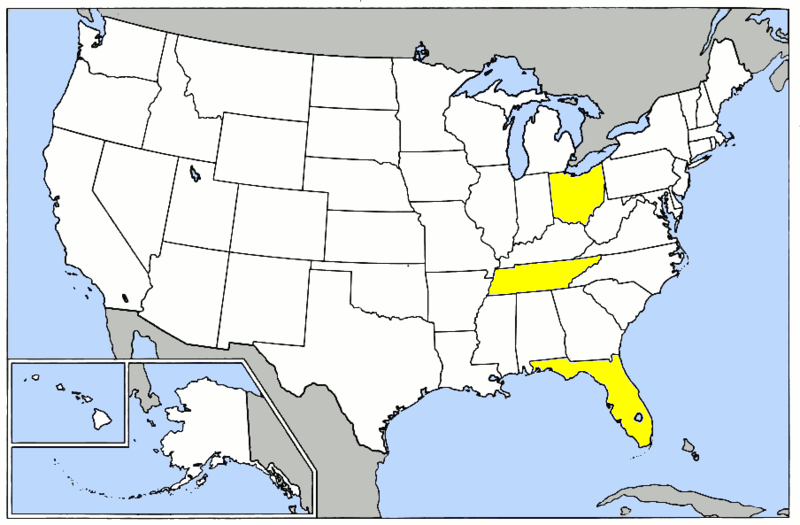 76th Flying Training Wing (World War II) - Map Based upon for basemap; Lineage and History of 31st Flying Training Wing (World War II); United States Air Force Historical Research Agency Document, Maxwell AFB, Alabama